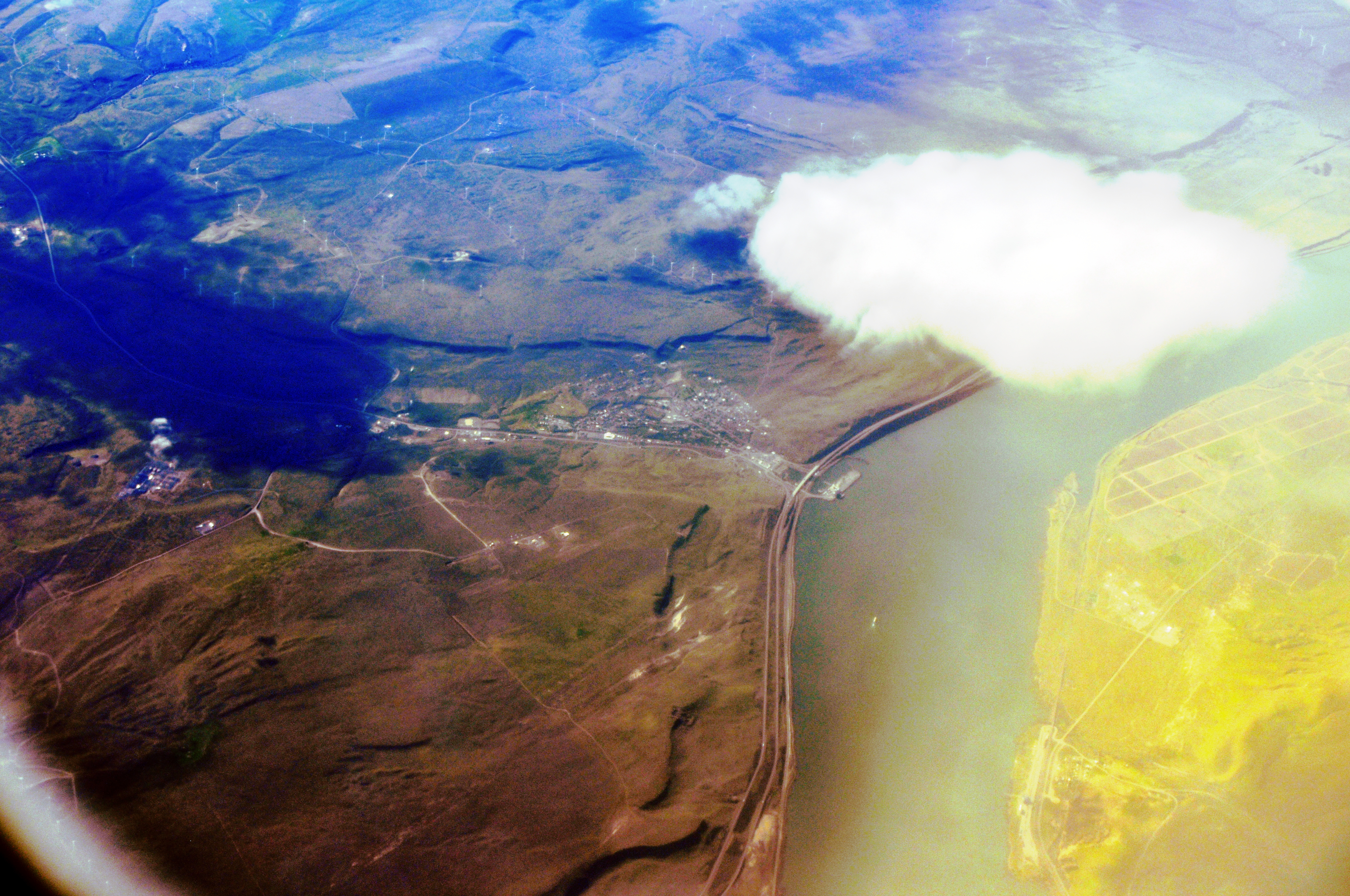 Aerial view of Arlington, Oregon, U.S. and vicinity